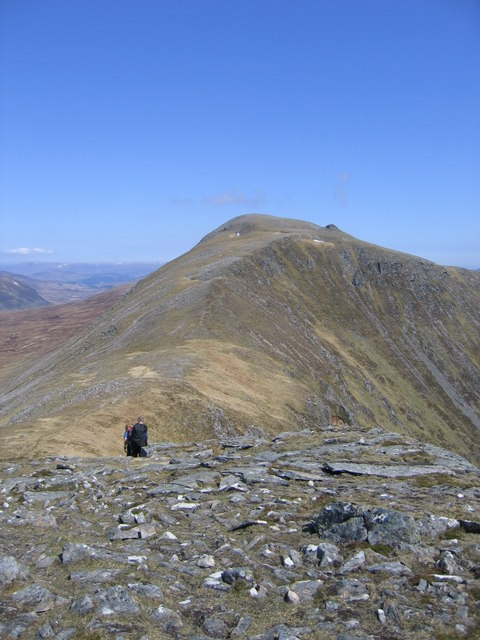 Beinn Bheoil from the south